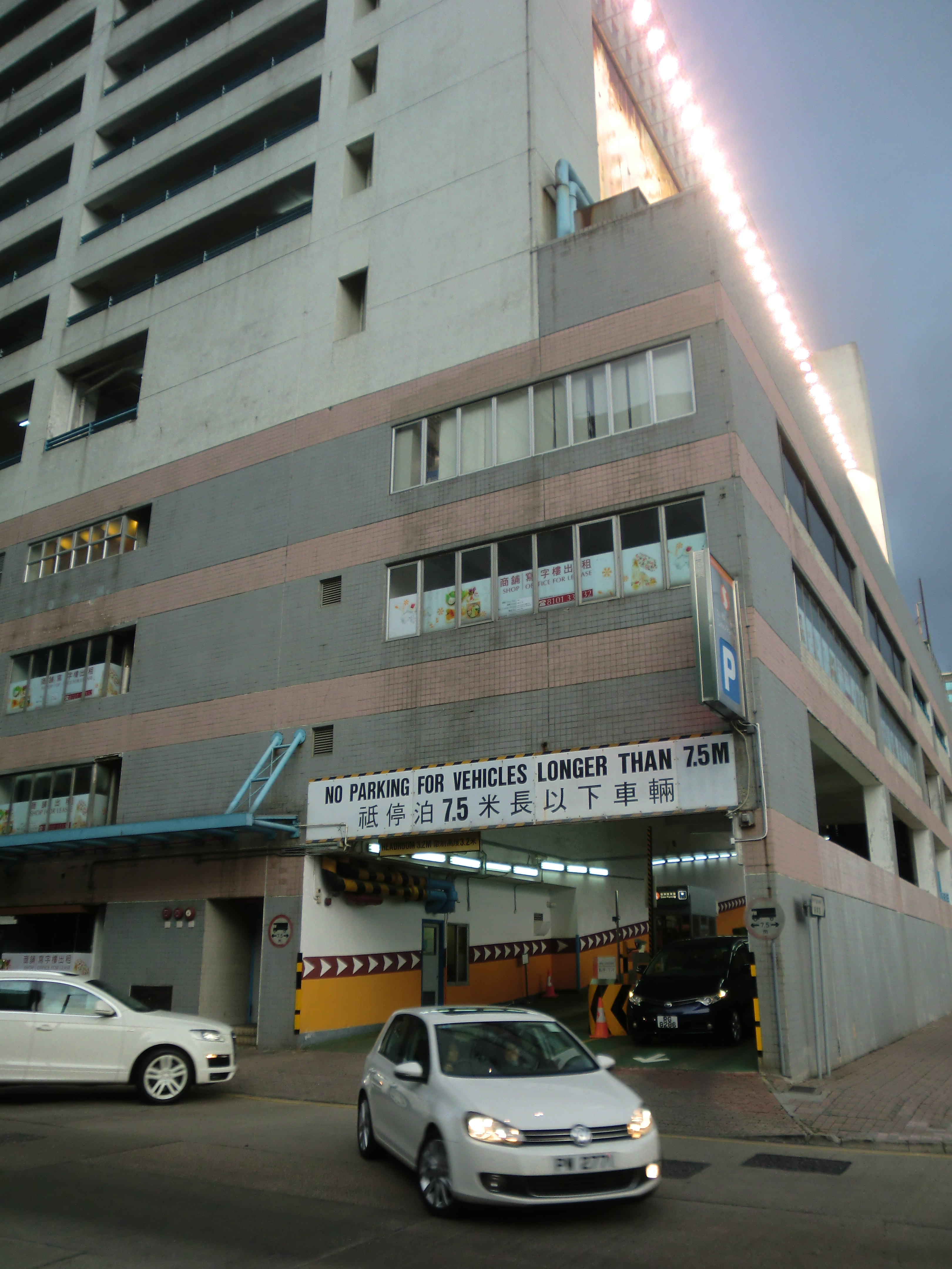 Kwun Tong Harbour Plaza carpark enterance